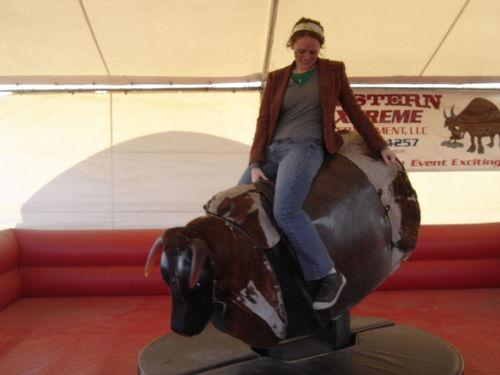 Example of Mechanical Bull Riding